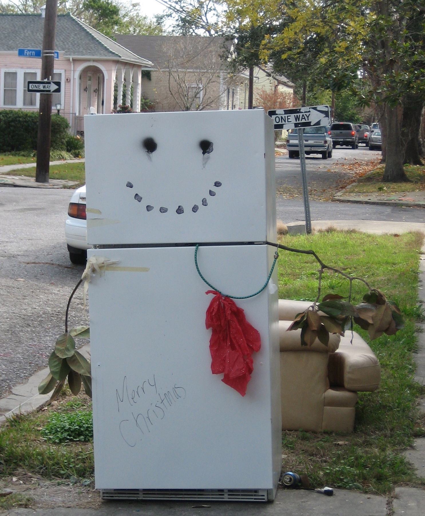 First Christmas in New Orleans after Hurricane Katrina: A trashed refrigerator set out on the curb is decorated like a snowman with "Merry Christmas" inscription. Carrollton neighborhood.